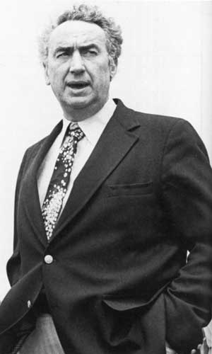 U.S. Congressman Philip Burton, U.S. Member of Congress, 1926-1983